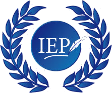 transparent copy of File:Iep-madagascar.jpg